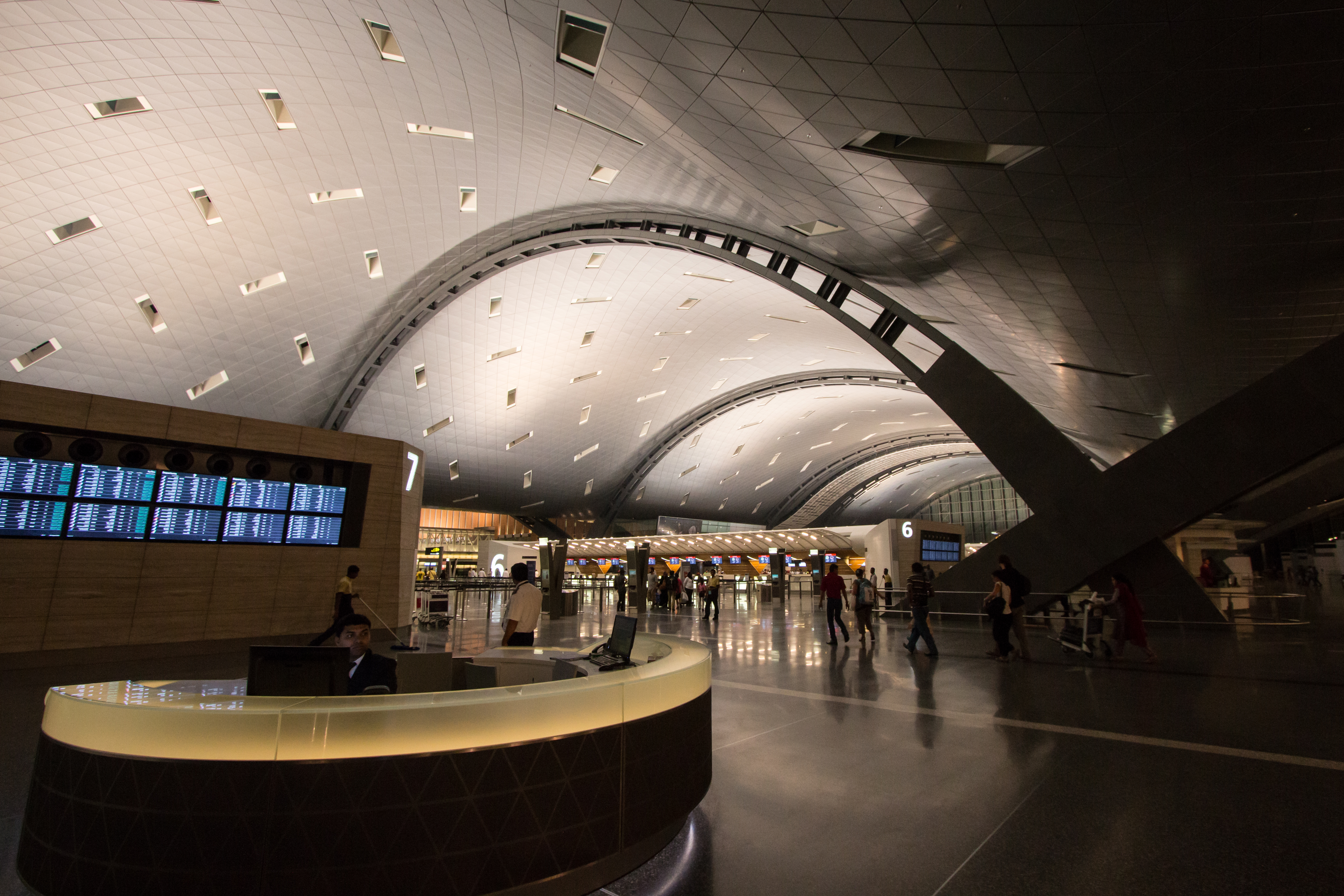 Hamad International Airport